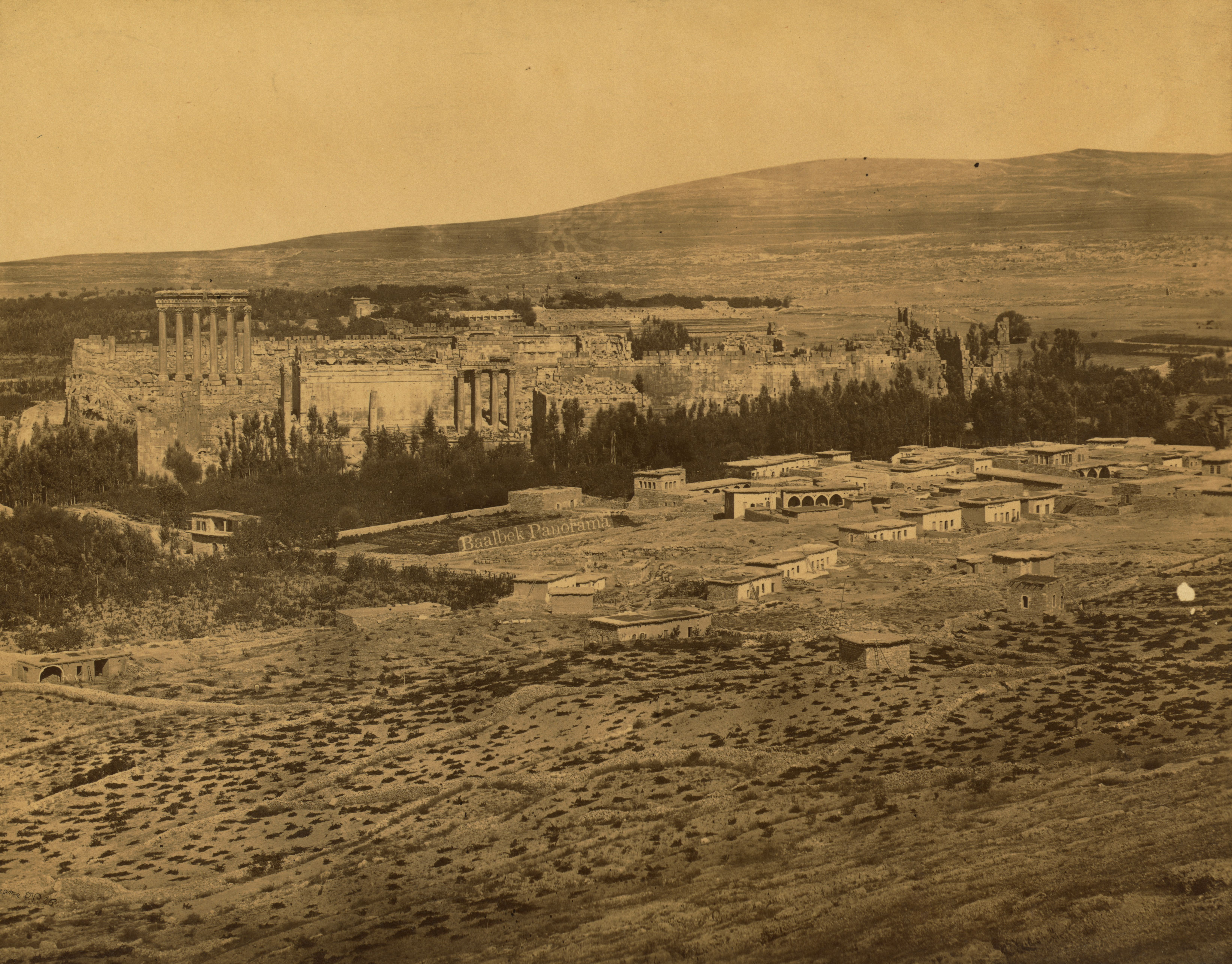 Aerial view of temple ruins of Ba'labakk